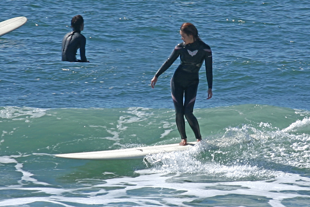 Surfing on a Skip Frye longboard at Tourmaline, Pacific Beach, California, February 2008